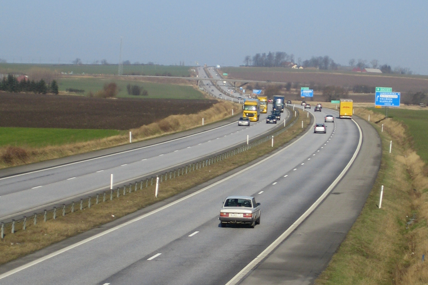 E6/E20 motorway near Landskrona in Skåne, Sweden